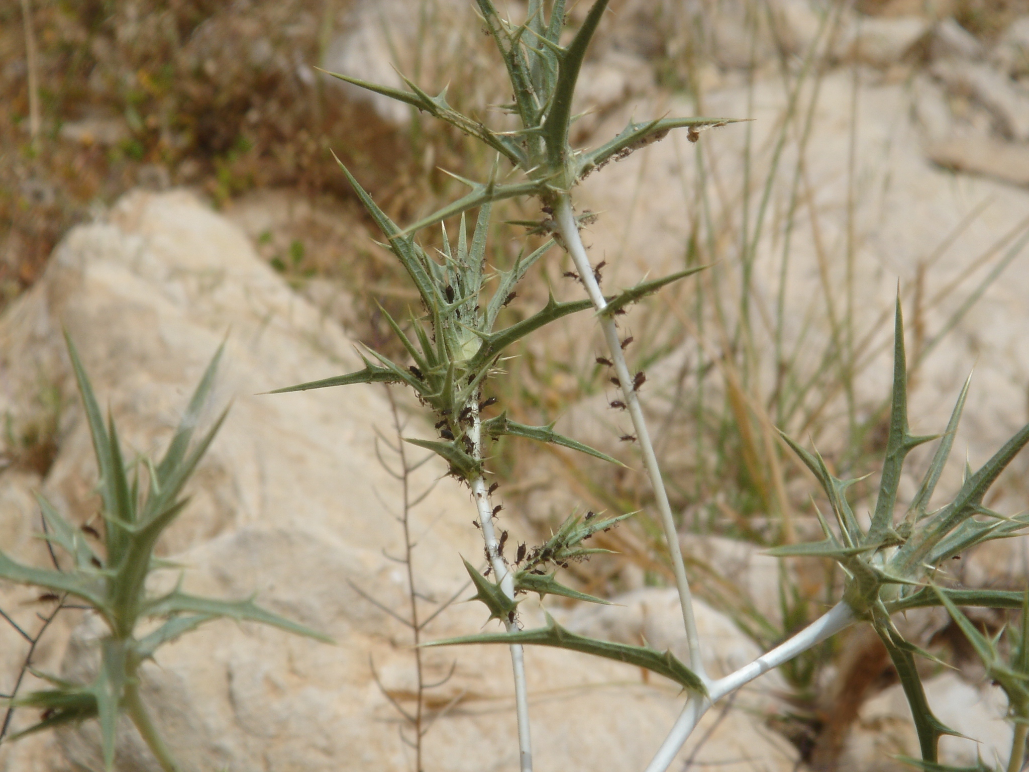 Aphids on a thistly plant at Peres river (נחל פרס), Israel. No aphids were found on adjacent flora.